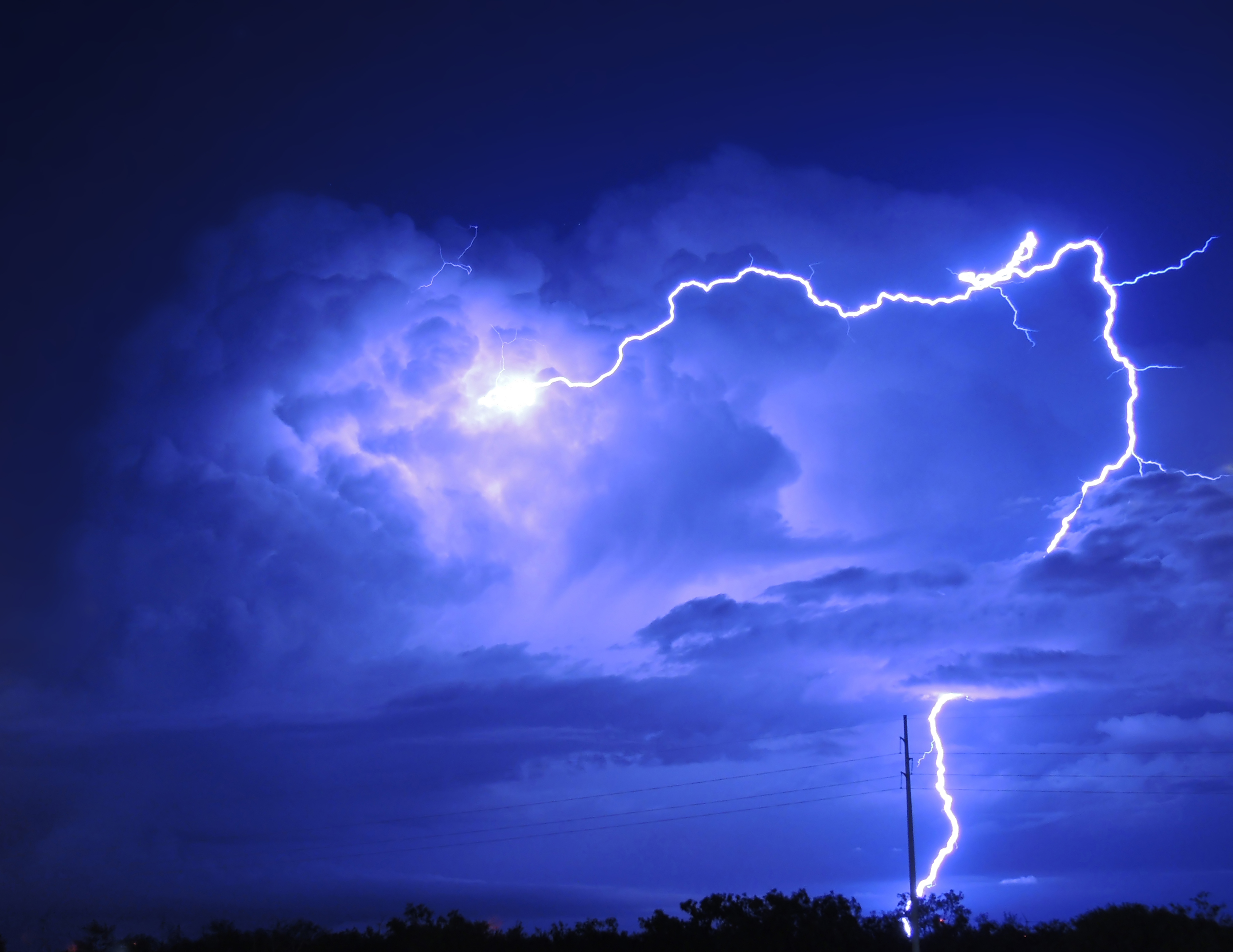 On the road from Dallas to Lubbock, TX. This small storm developed shortly after midnight. Image ID: con00033, NOAA's National Weather Service (NWS) Collection Location: Texas, Snyder Photo Date: 2014 June Photographer: Mitchel Coombs Credit: NOAA Weather in Focus Photo Contest 2015